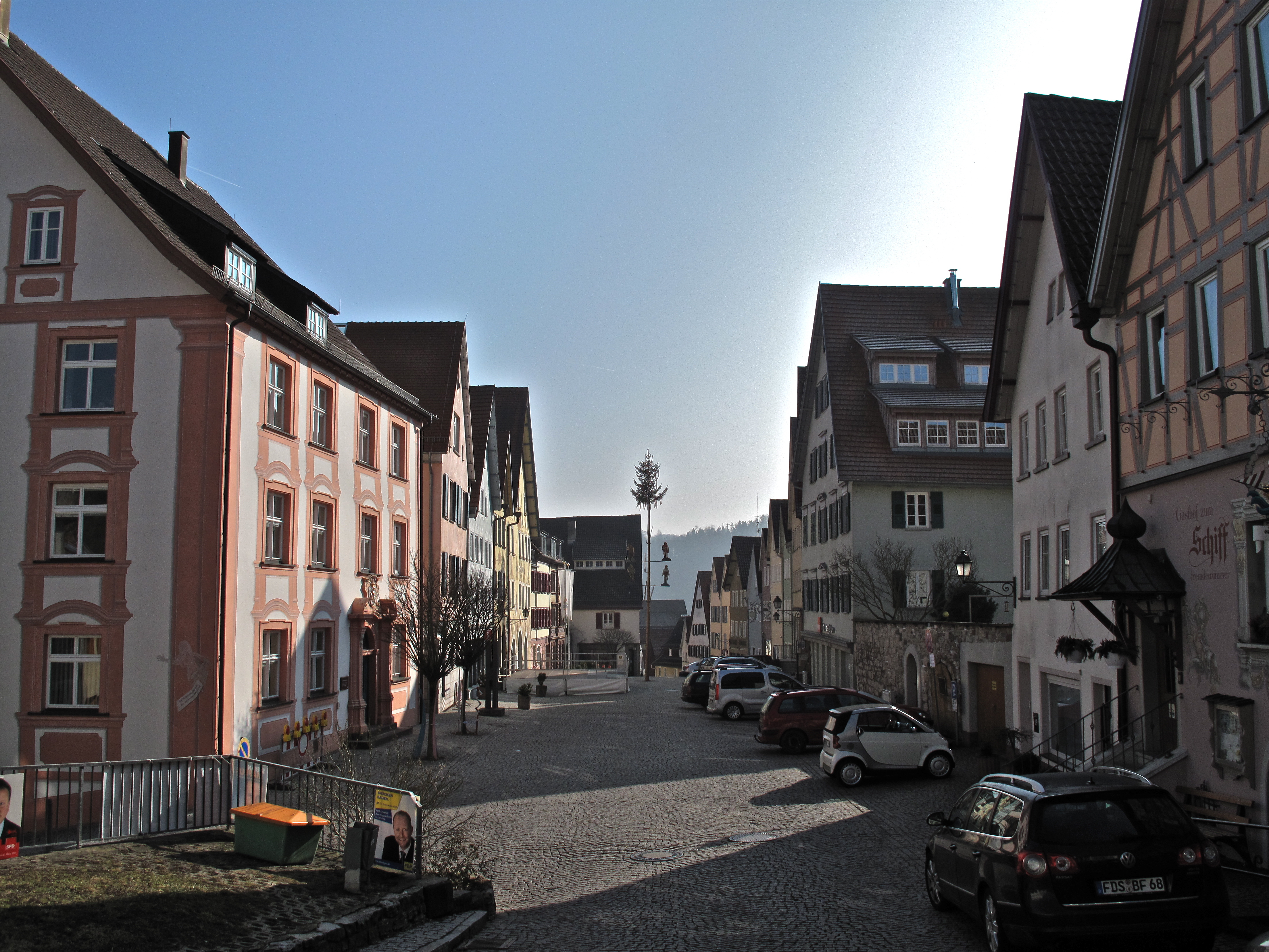 The market place (Marktplatz) in Horb am Neckar.